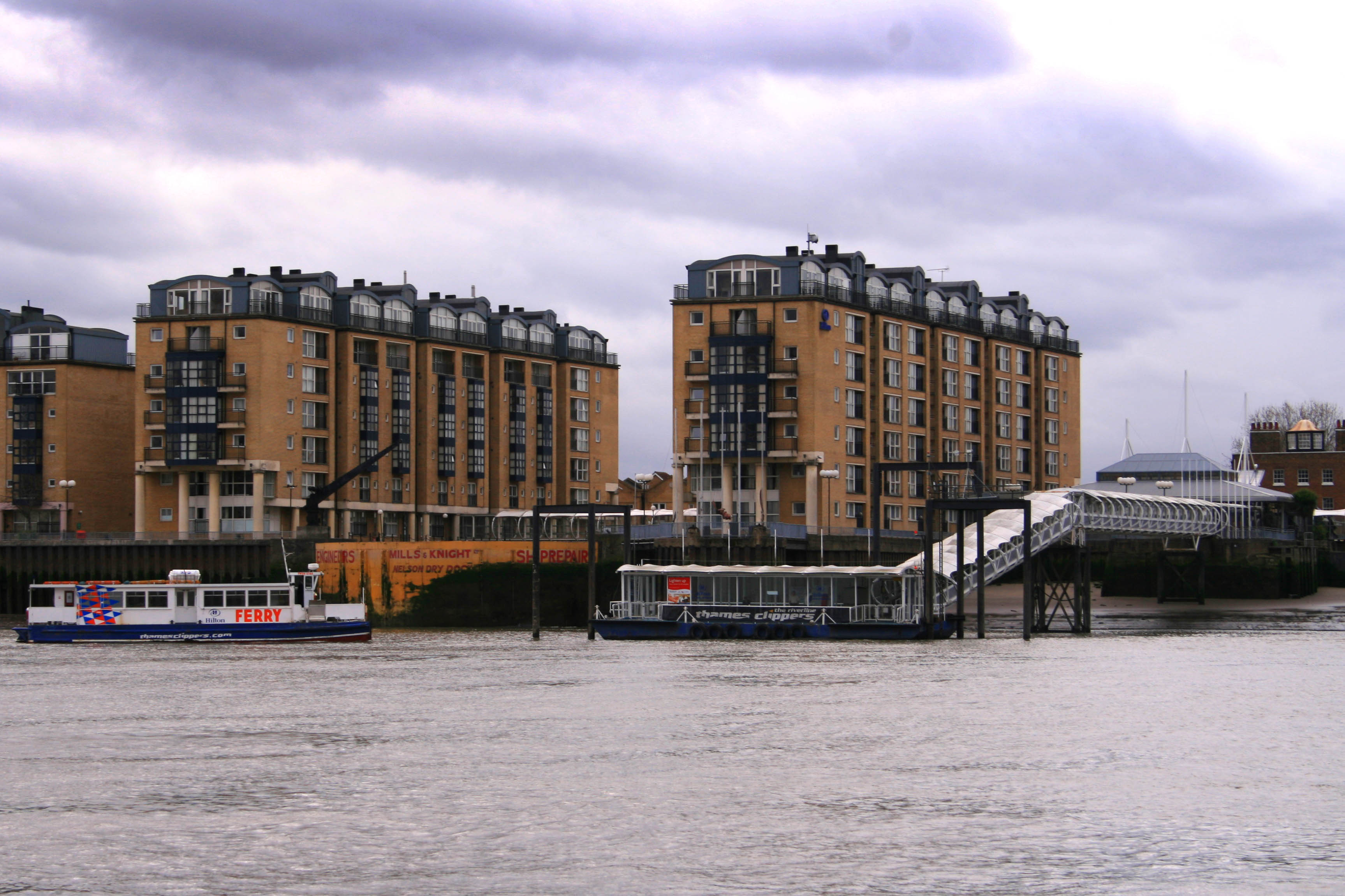 Nelson Dock Pier on the River Thames, London, UK with approaching Canary Wharf Ferry.